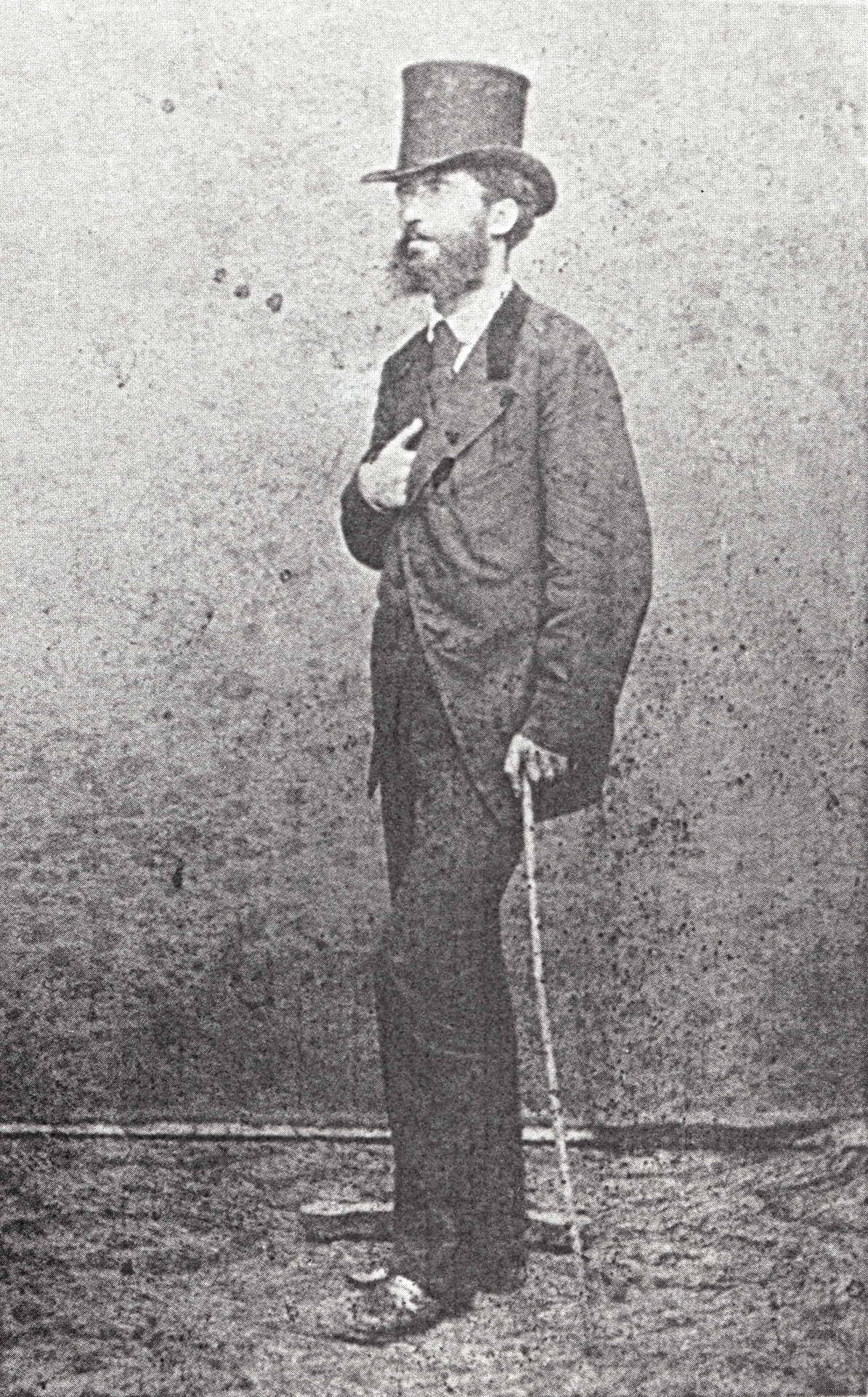 Todor Peev, member of the Etropole revolutionary committee